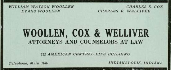 Law firm advertisement from 1920 Indianapolis City Directory